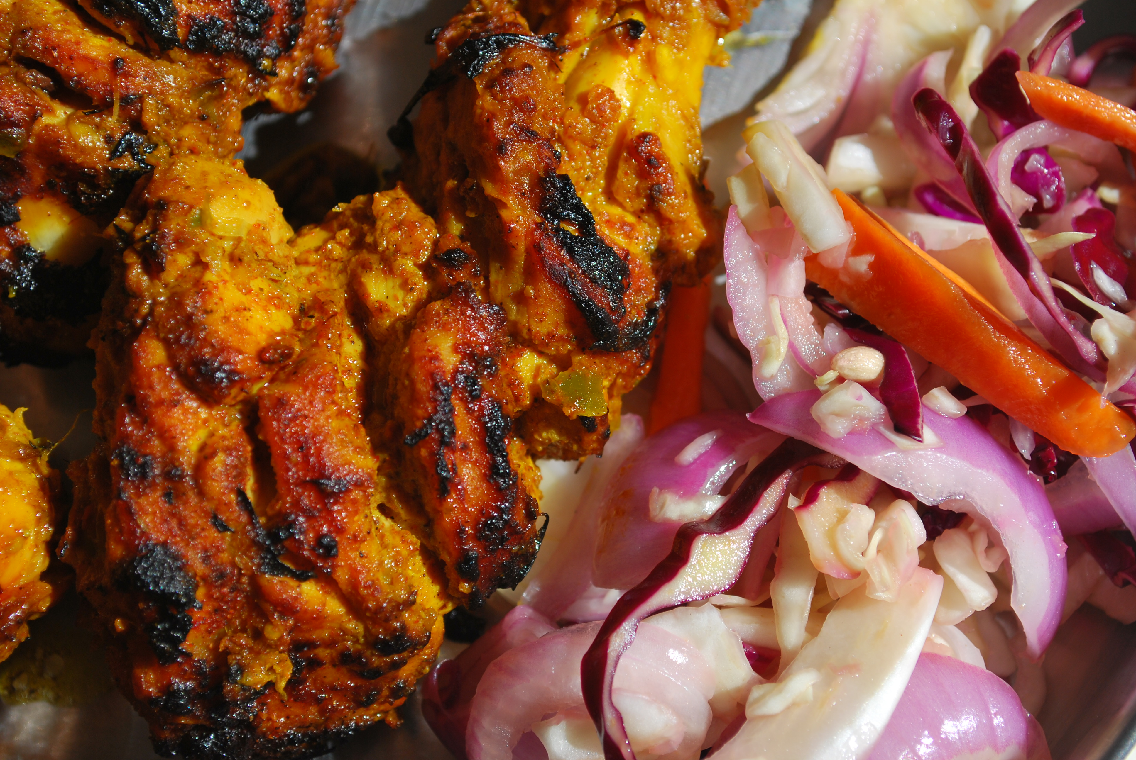 Kalmi Kabab